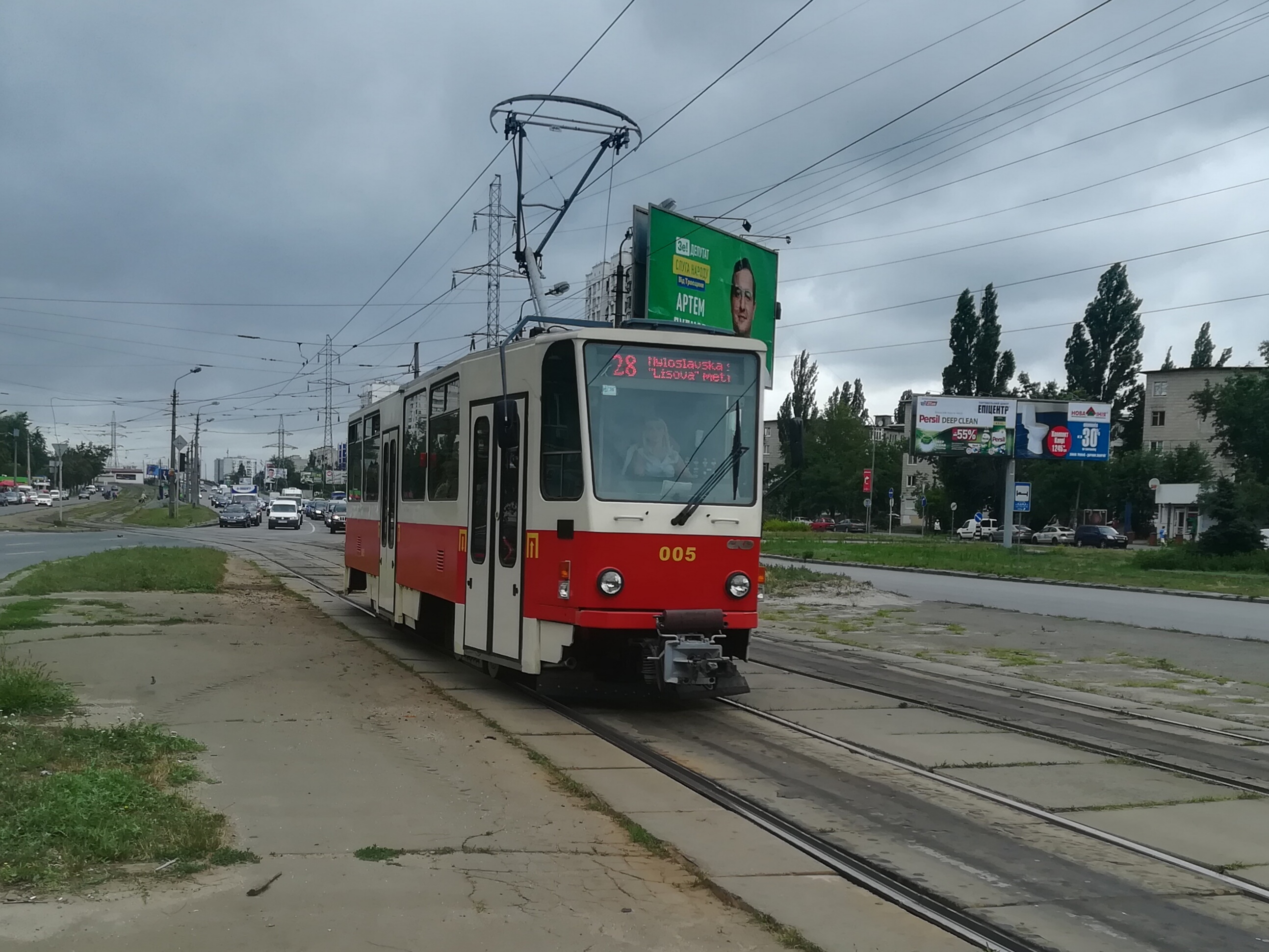 Tram Tatra T6A5 No. 005 on Bratyslavska street in Kyiv (route 28)